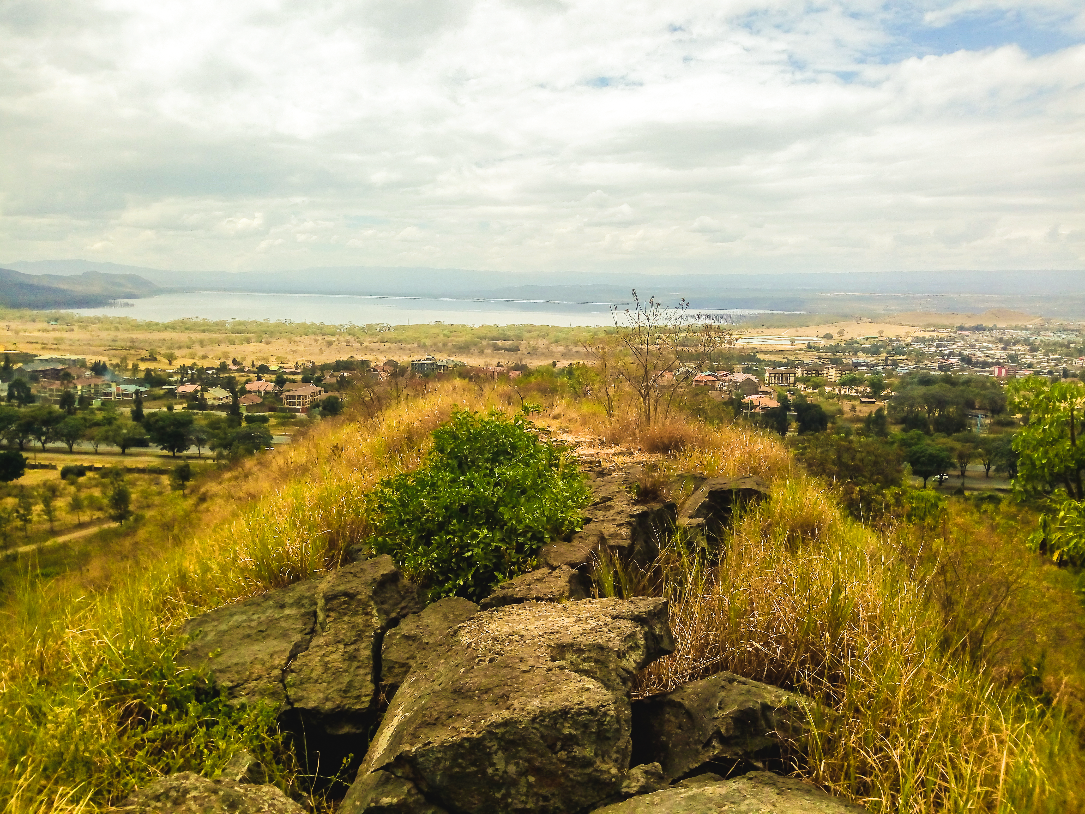 This is an image with the theme "Play" from: Kenya